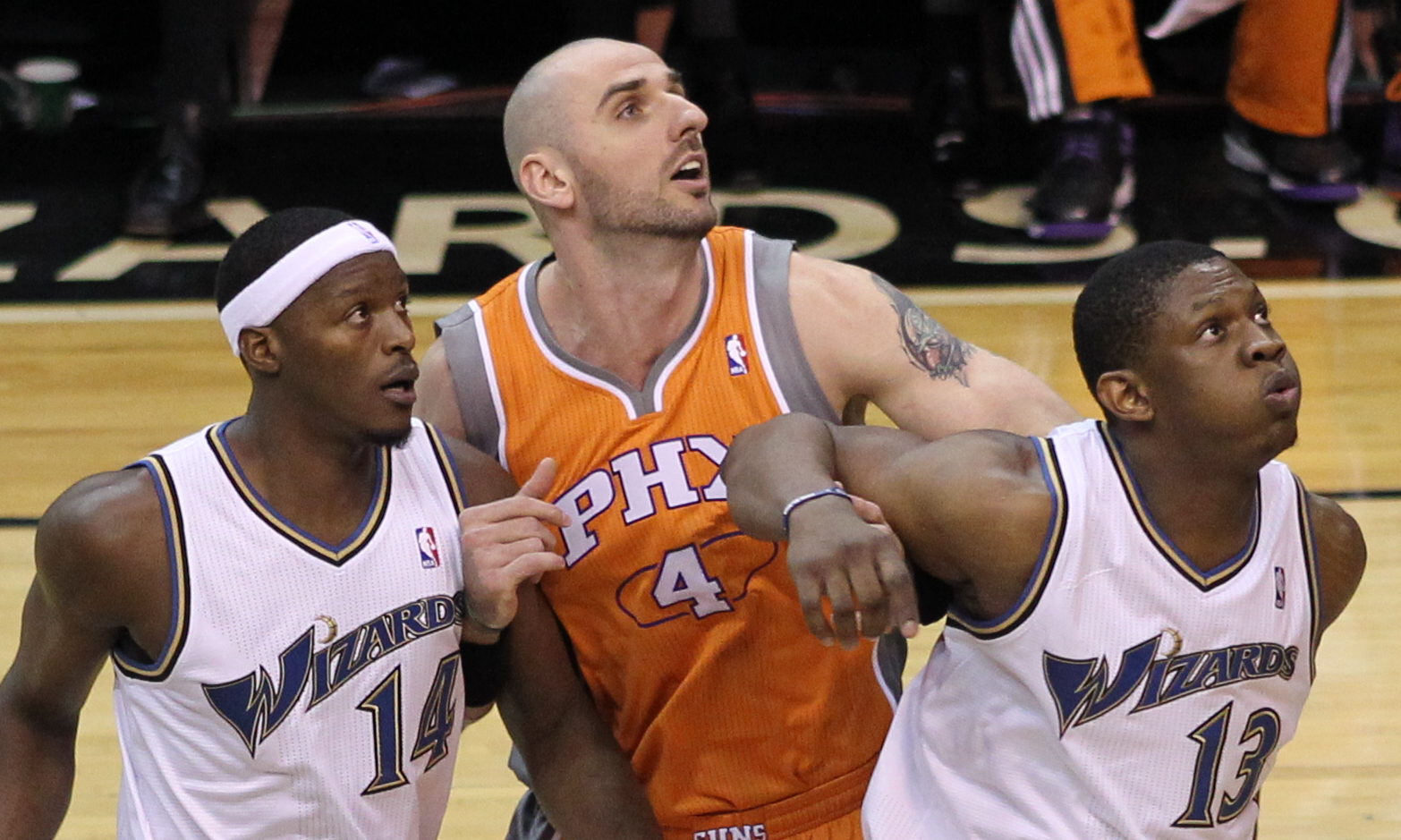 Washington Wizards v/s Phoenix Suns January 21, 2011